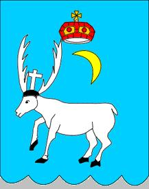 Kingdom of Imereti coat of arms